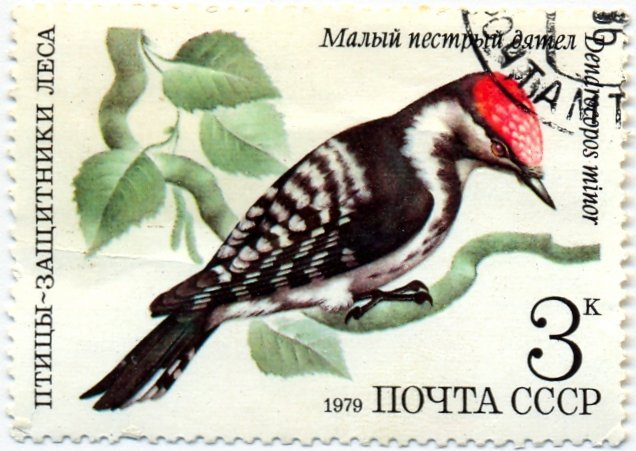 Dendrocopos minor